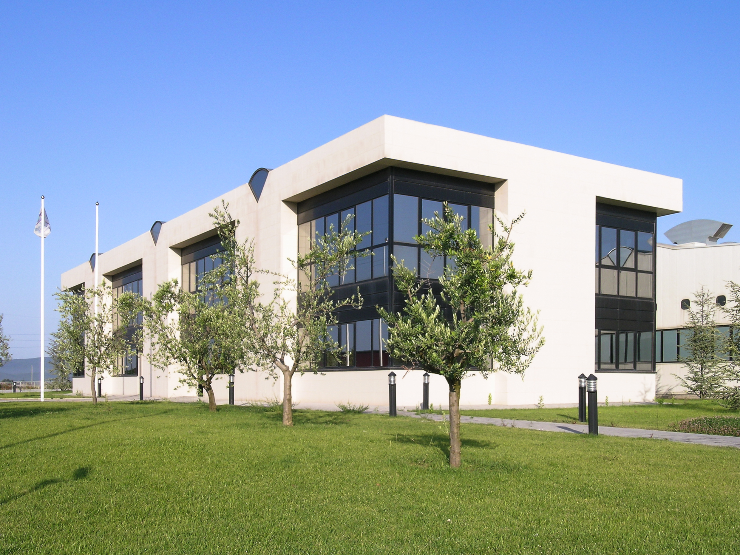 CST NET Venturina office site in 2004